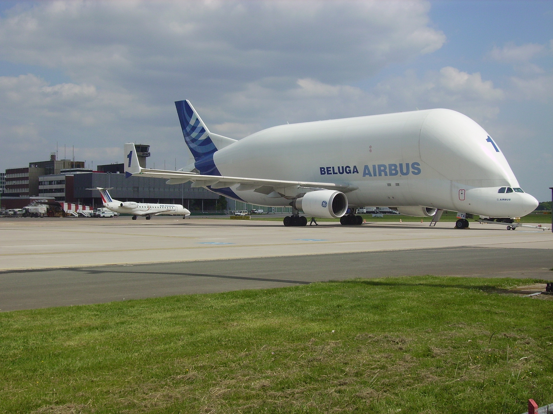 The Airbus A300B4-600ST (Airbus Beluga) with the numer "1" at the airport of Bremen. In the background we see an Air France Regional Embraer EMB-145 MP with the sign F-GUBB taxing to the runway (flight AF 5533 to Paris).